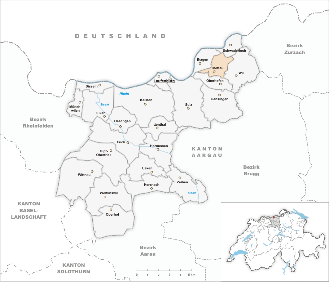 Municipality Mettau